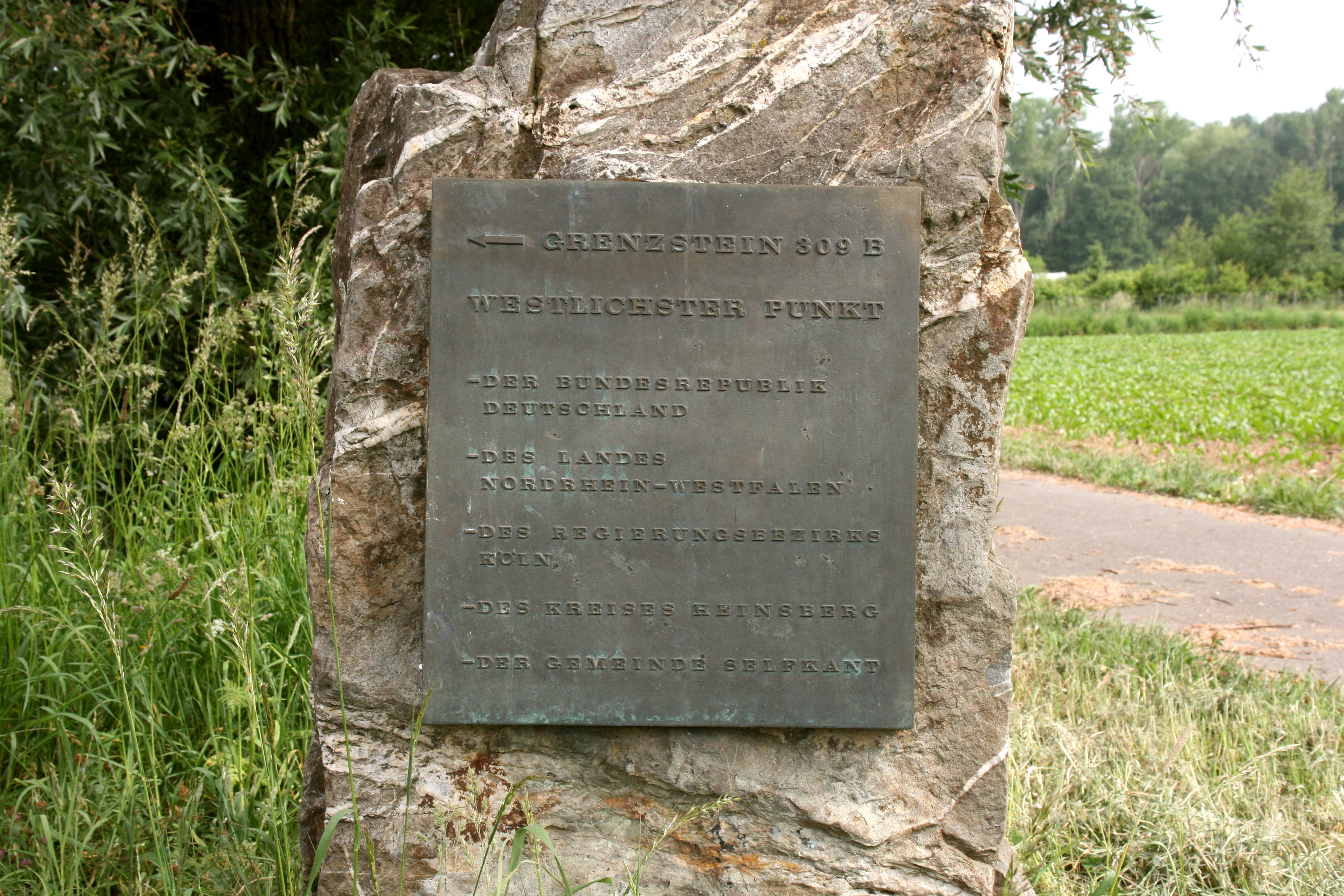 Sign pointing to the close-by westernmost point of Germany, Haus Groevenkamp (K1) in Selfkant-Isenbruch